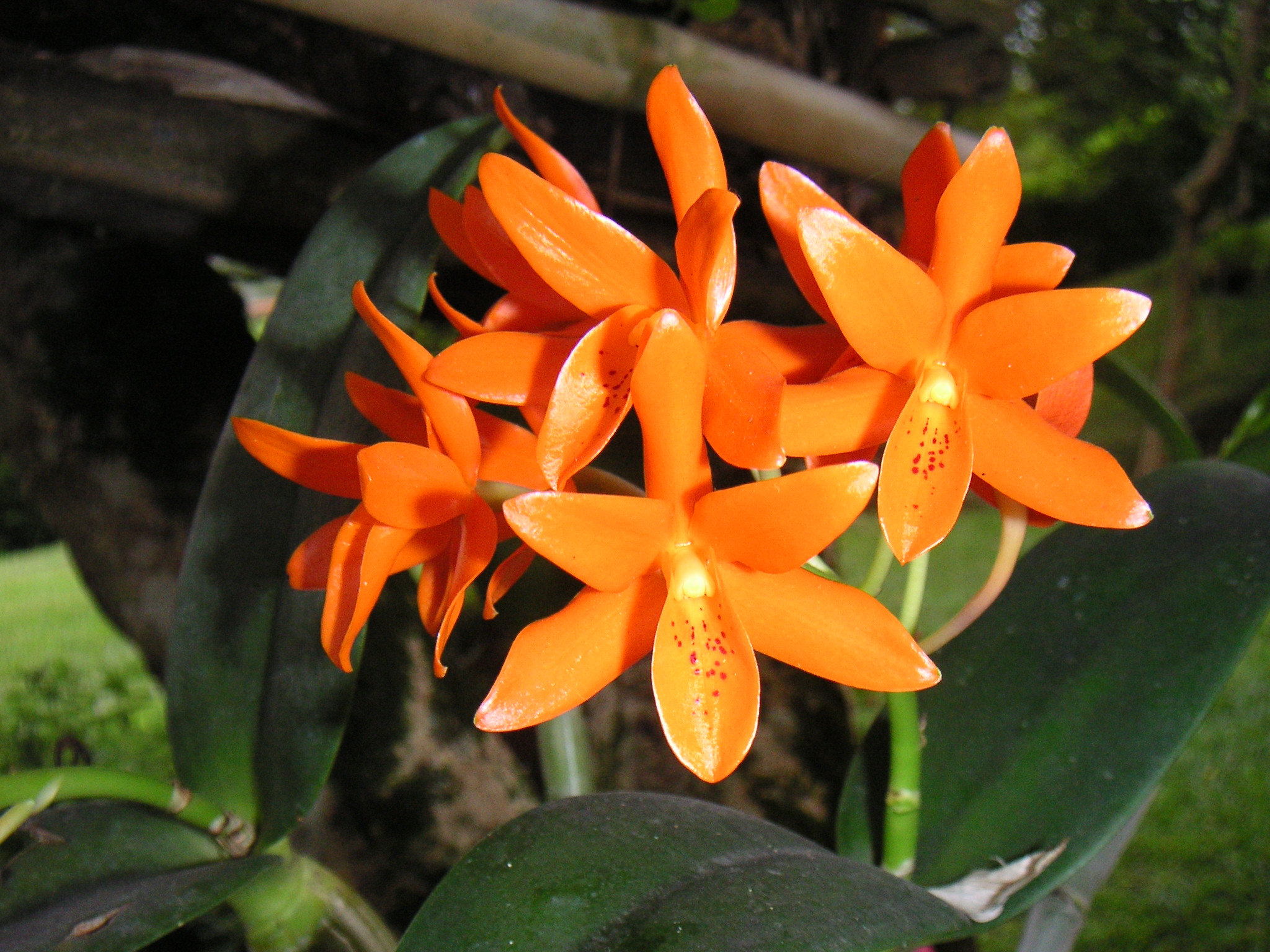 Guarianthe aurantiaca (Bateman ex Lindl.) Dressler & W. E. Higgins 2003 - Orchidaceae - Cali / KolumbienSynonym: Cattleya aurantiaca